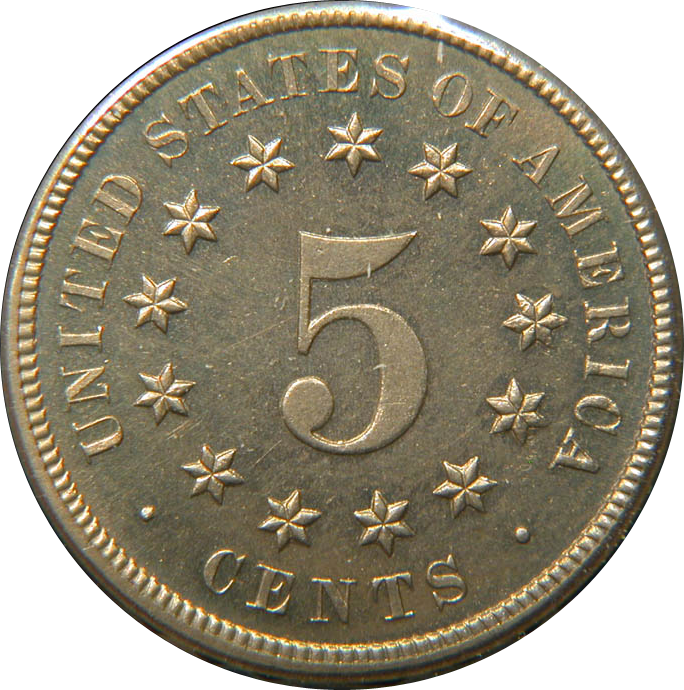 Shield nickel without rays reverse.